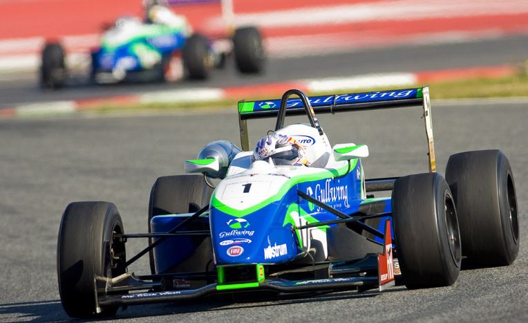 Máximo Cortés driving the Dallara F306 in the F3 Spanish Championship.